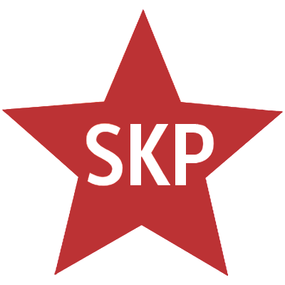 Logo of the Communist Party of Finland (1994)